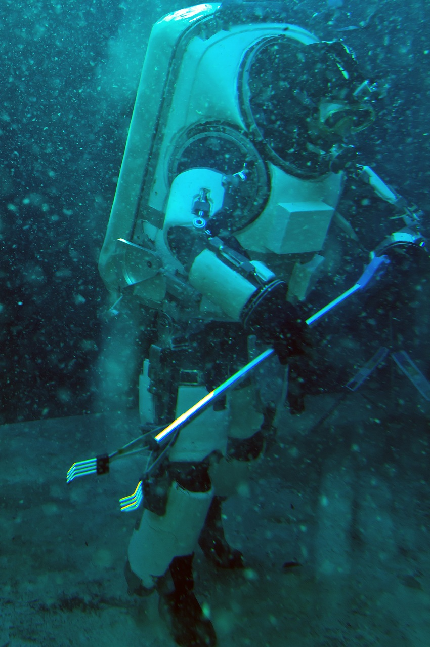 EVA training underwater in reduced gravity (1/6th g) by COMEX SA.